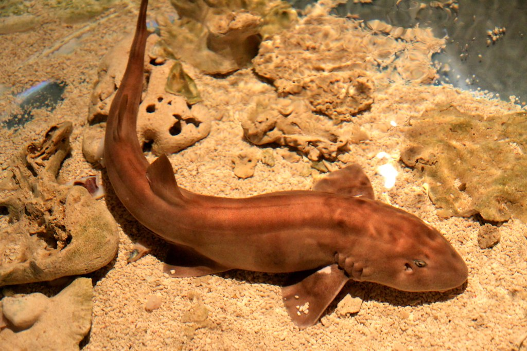 Brownbanded bambooshark (Chiloscyllium punctatum) at the KLCC Aquaria